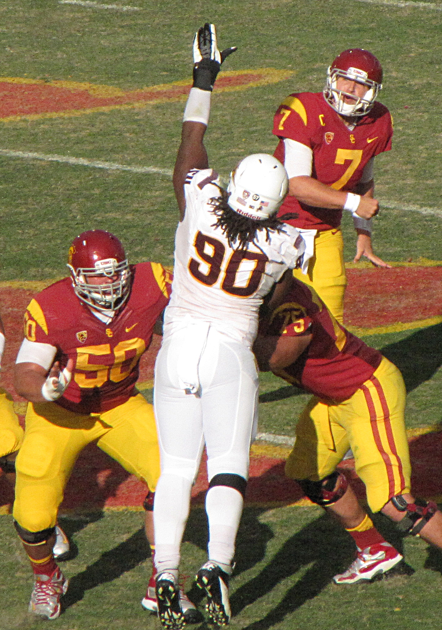 Arizona State Sun Devil football player Will Sutton reaches to block a pass from the University of Southern California Trojans.